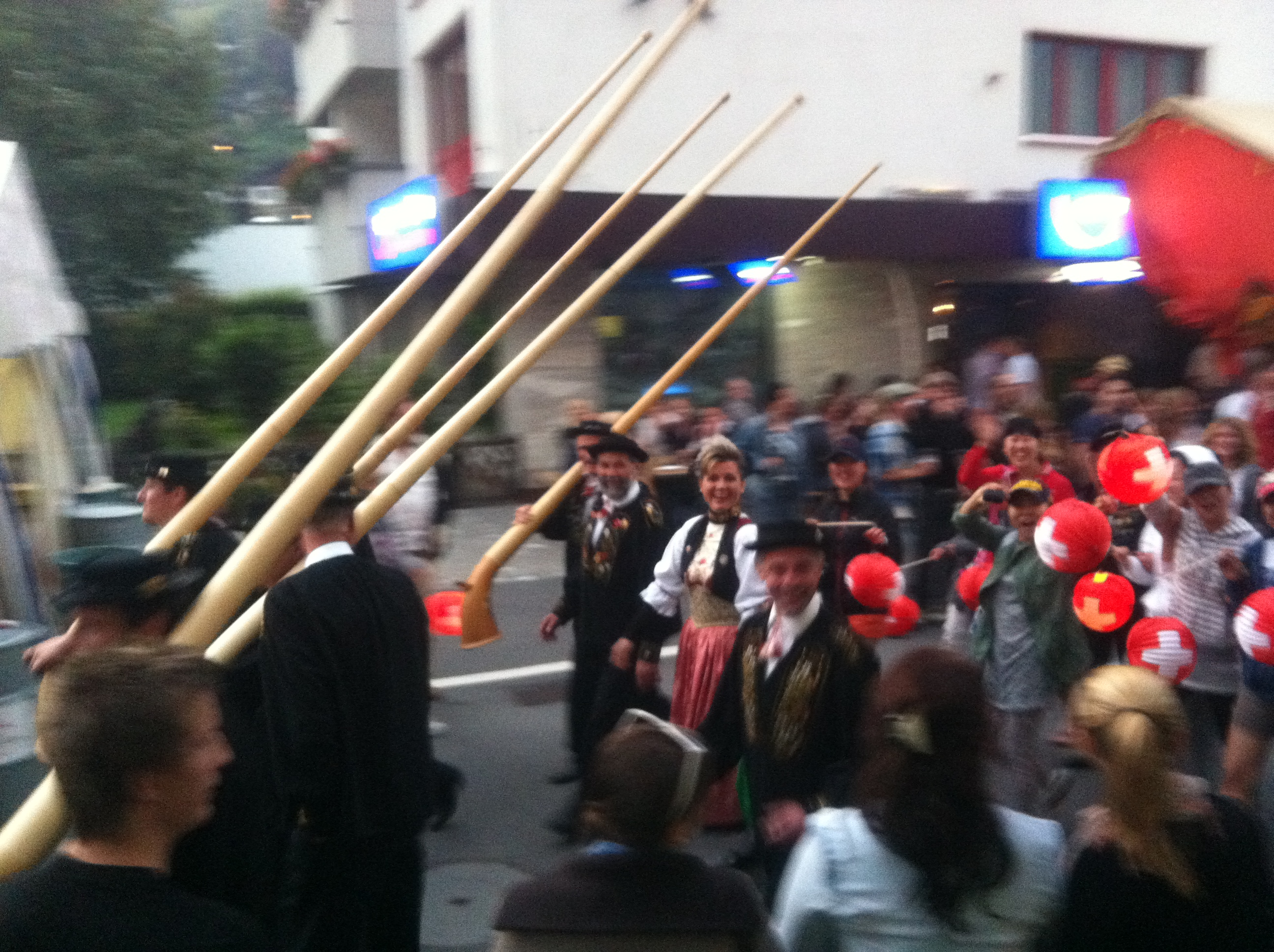 festival in Engelberg